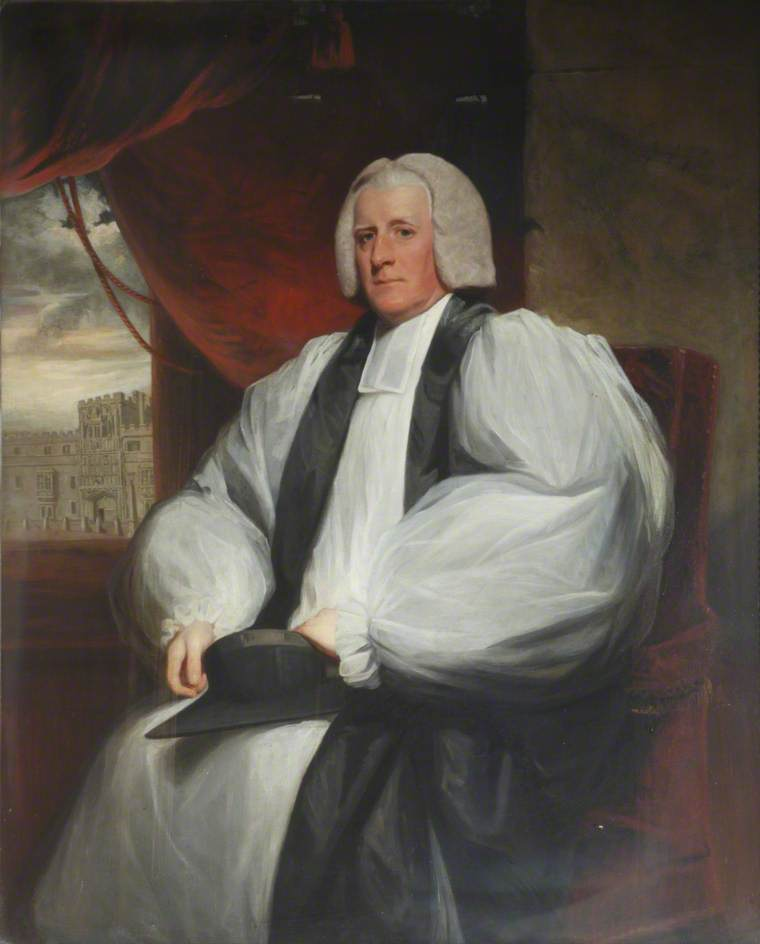 William Cleaver (1742-1815), Bishop of Chester, Bangor, and St Asaph